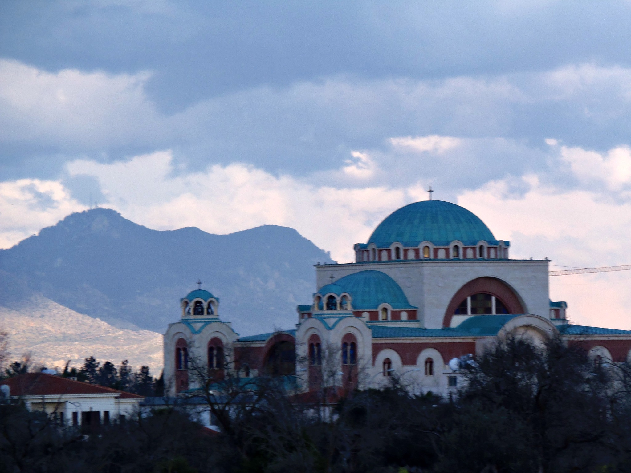 Agios Sofia Church in Strovolos, Nicosia, Cyprus